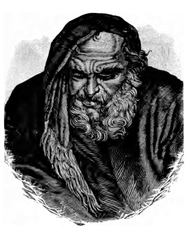 Anania Shirakatsi